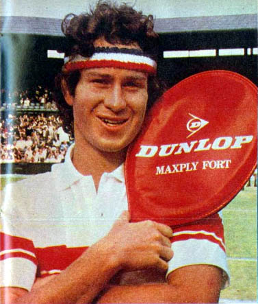 Excerpt of a Dunlop advertisement showing John McEnroe, who was sponsored by the company.